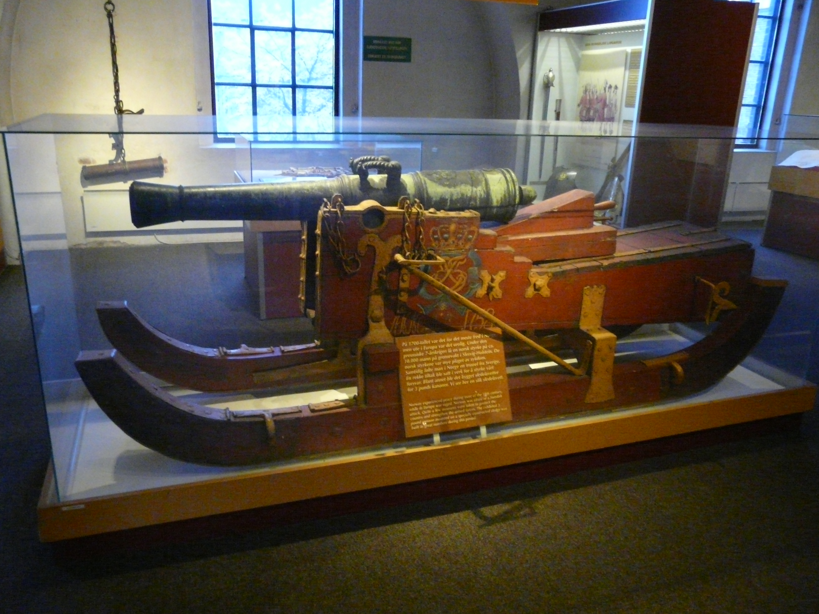 Cannon on a sled dated 1758 year. Military museum at Akershus fortress in Oslo, Norway. Photo maden on 01 of September, 2012.